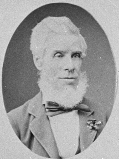 Photographic copy of a montage of photographic portraits depicting members of the 1882 House of Representatives. All portraits taken by William Henshaw Clarke of Wellington. Copy of montage made by S P Andrew Ltd.